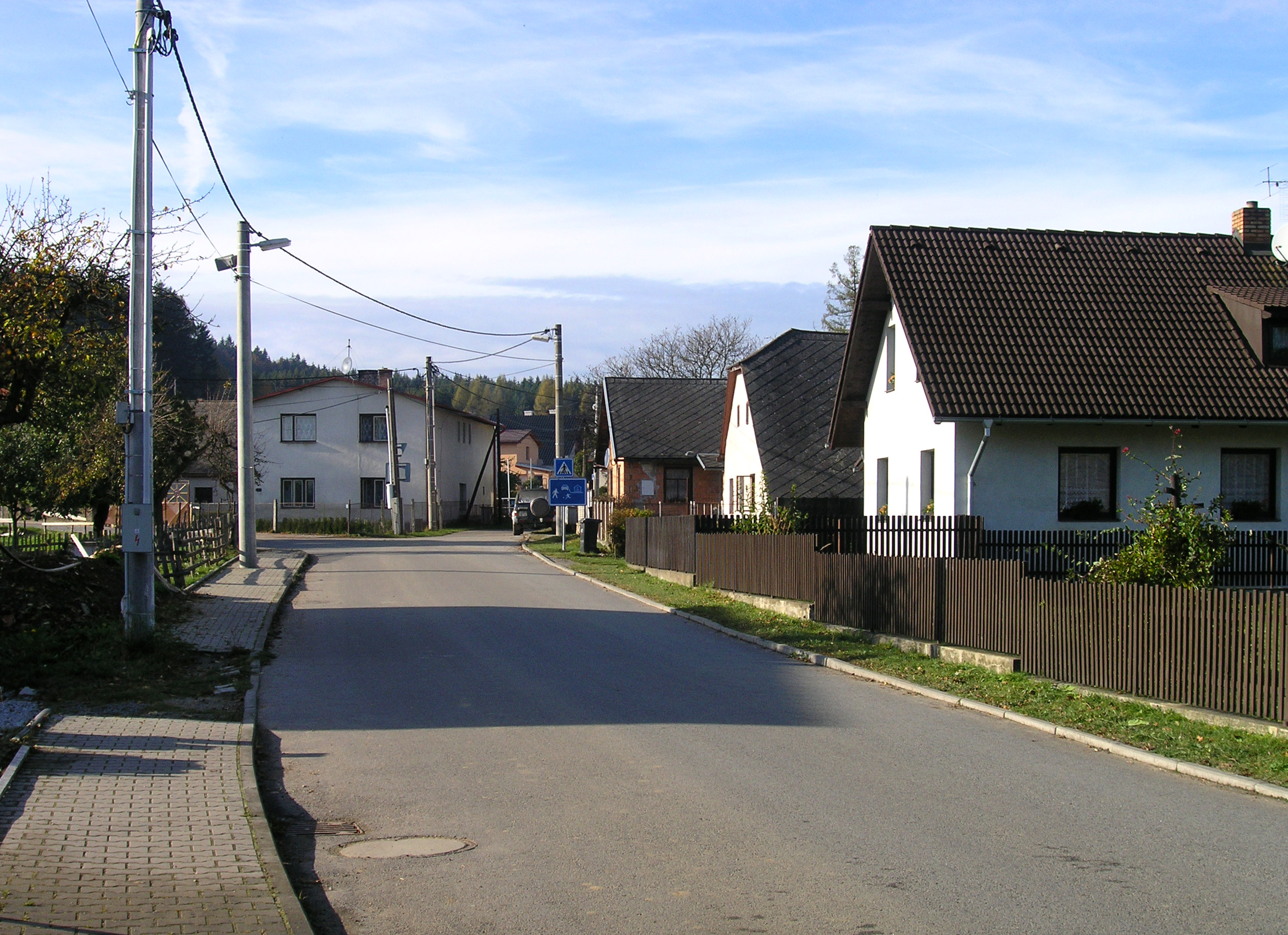 West part of Bílý Kámen village, Czech Republic